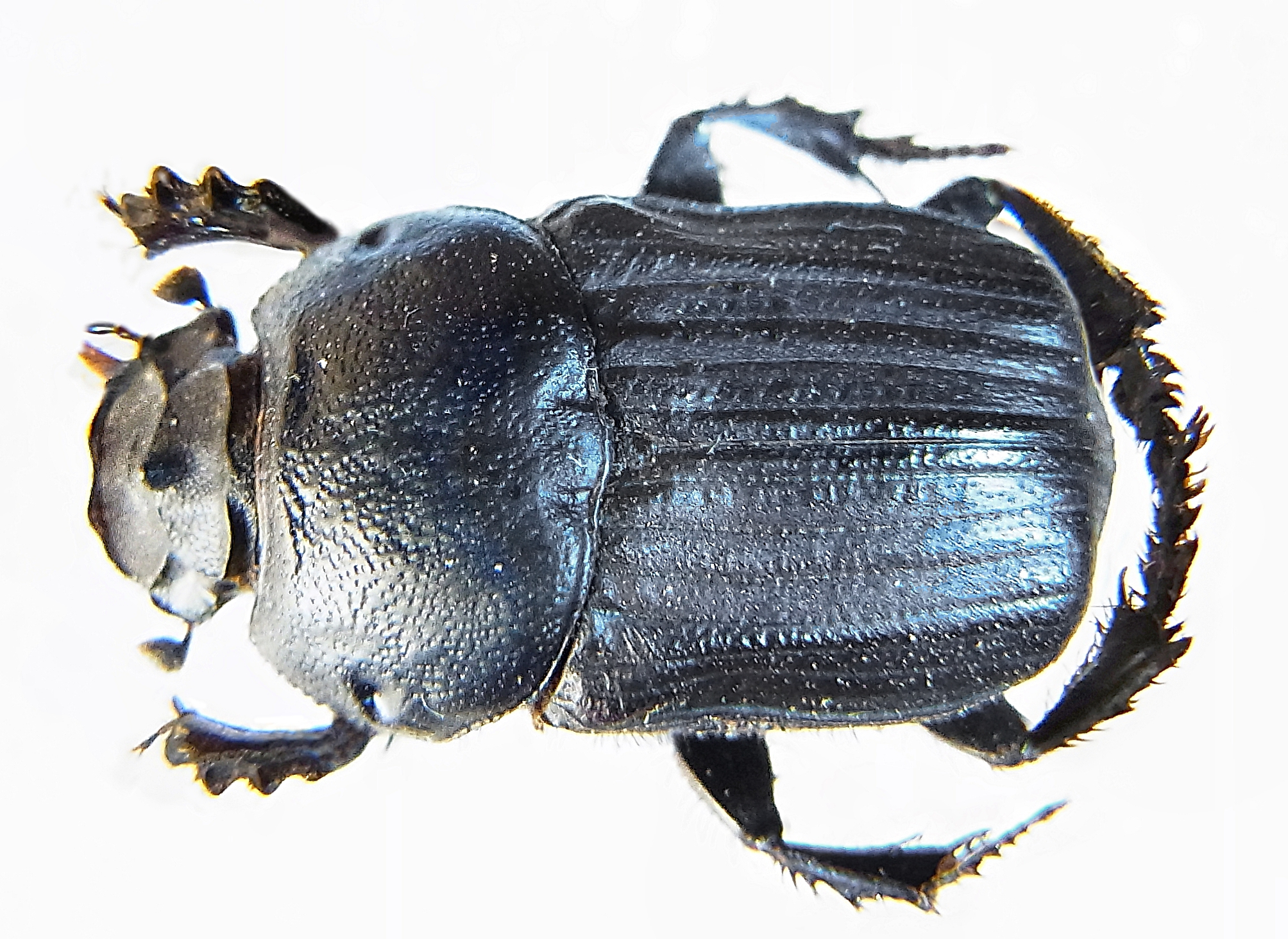 Cheironitis furcifer female, from Northern-Greece near Kleidí at 1996-06-25